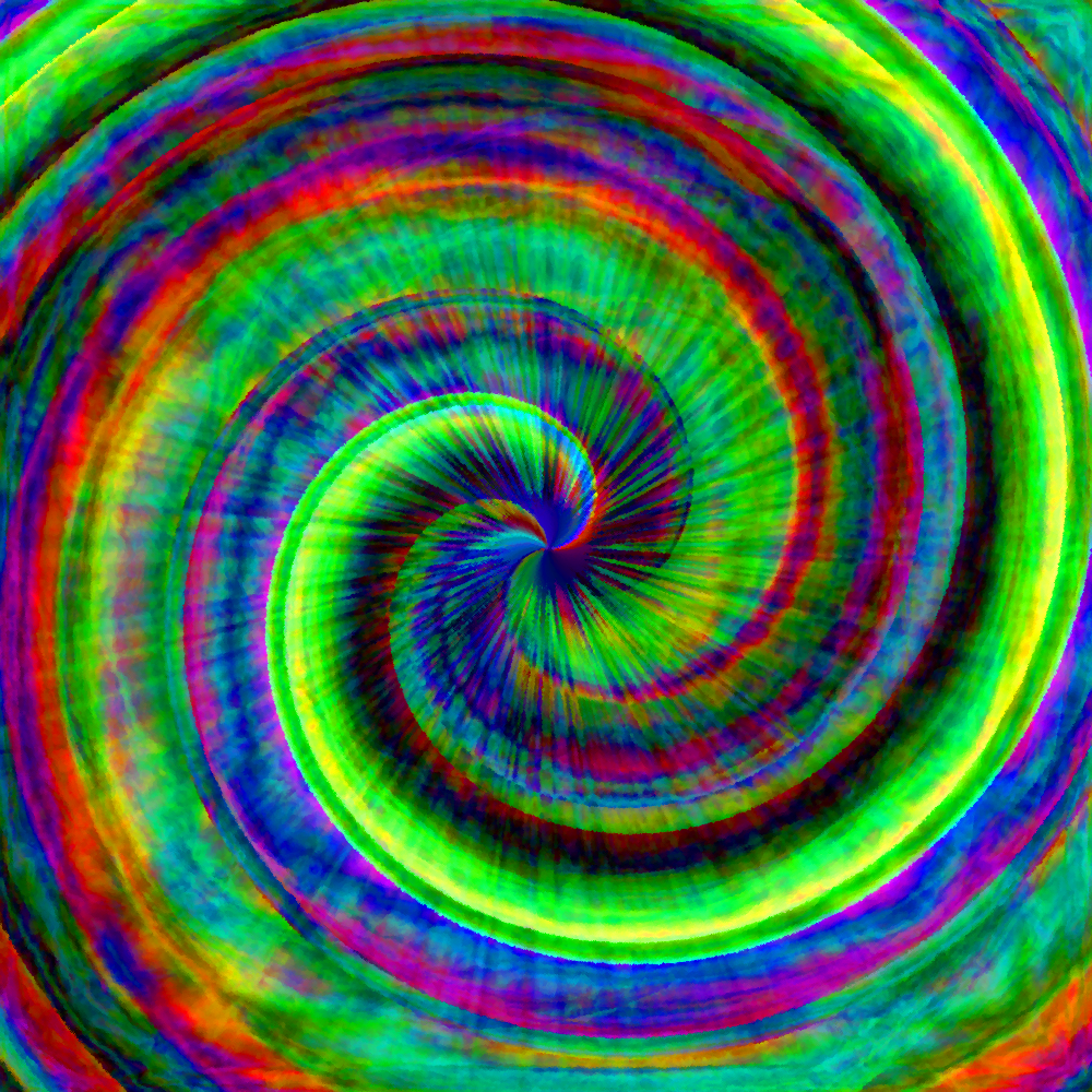 A tie-die design.